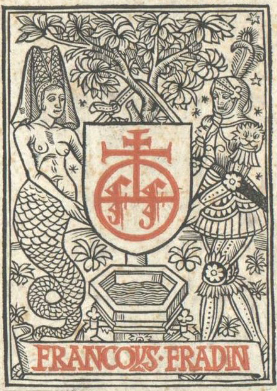 Printer's mark of French printer and bookseller François Fradin (fl. 1493-1537) from Lyon, 1510